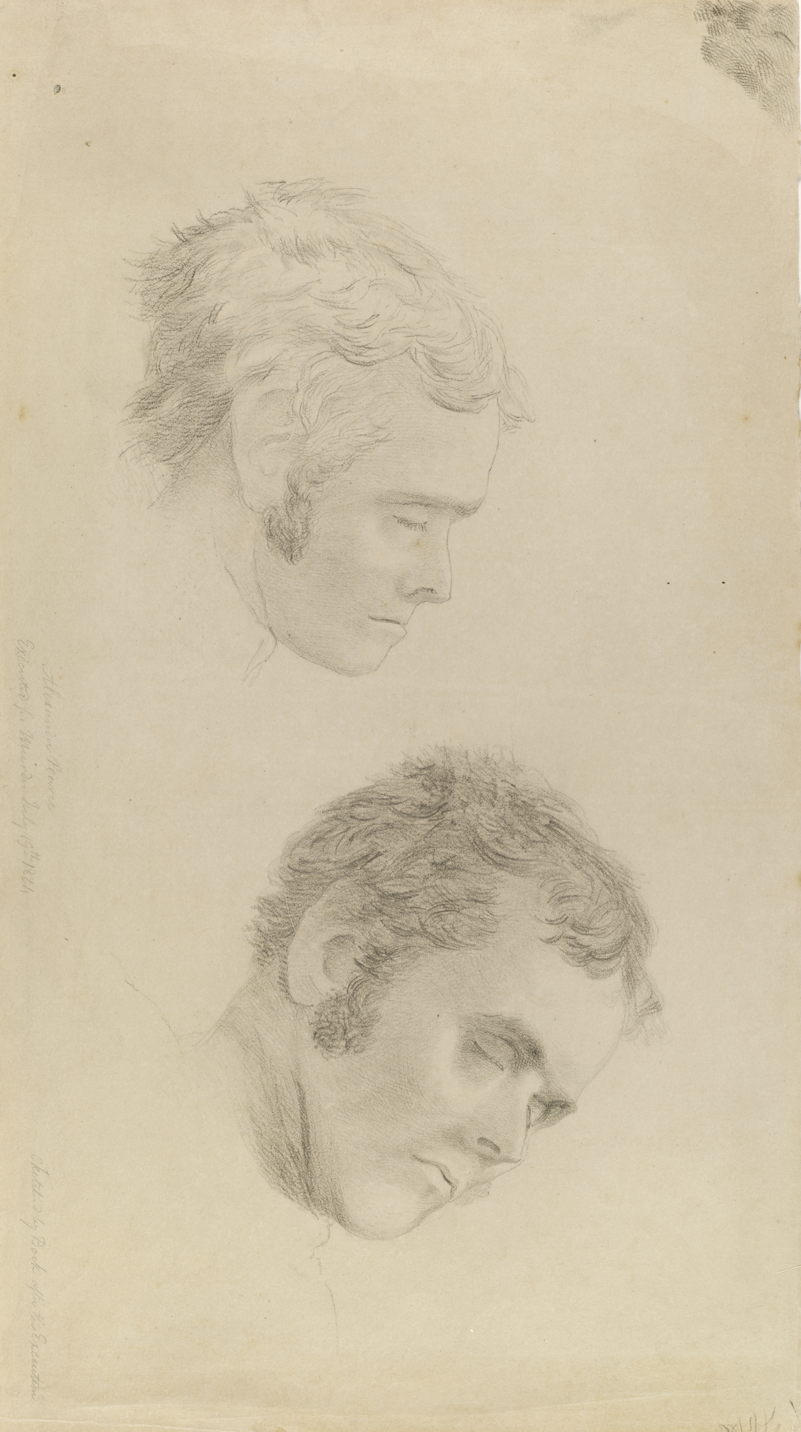 Alexander Pearce (b. 1790; d. 1824), executed for Murder July 19th 1824